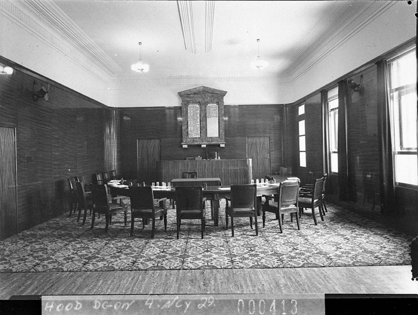 Interior; the council room, Ashfield Town Hall